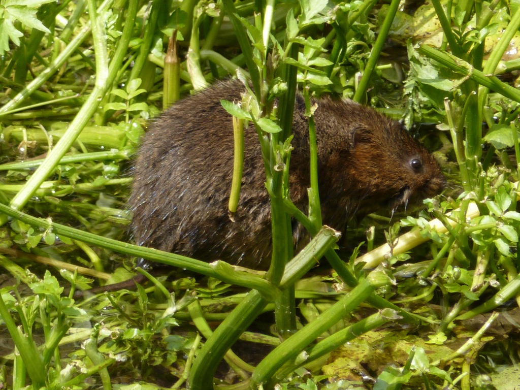 Just emerged from the water. My attempts to photograph it swimming had it swimming into shot and swimming out of shot. Another day...